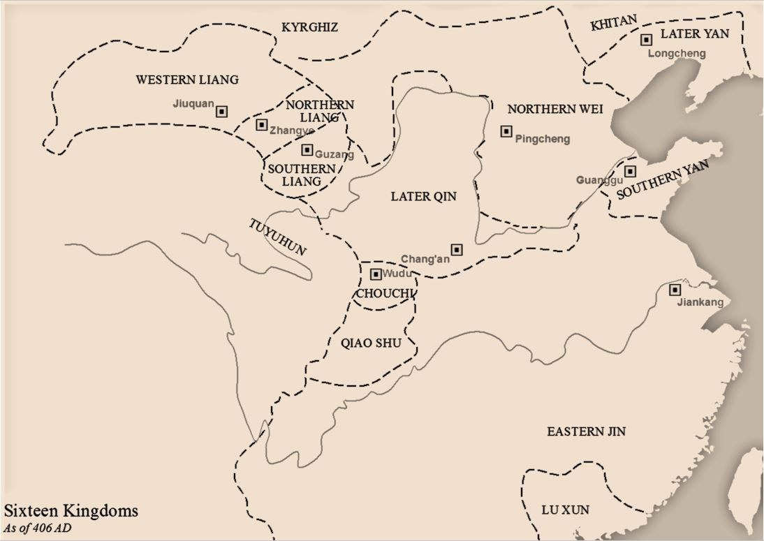 Map of Sixteen Kingdoms as of 406 AD